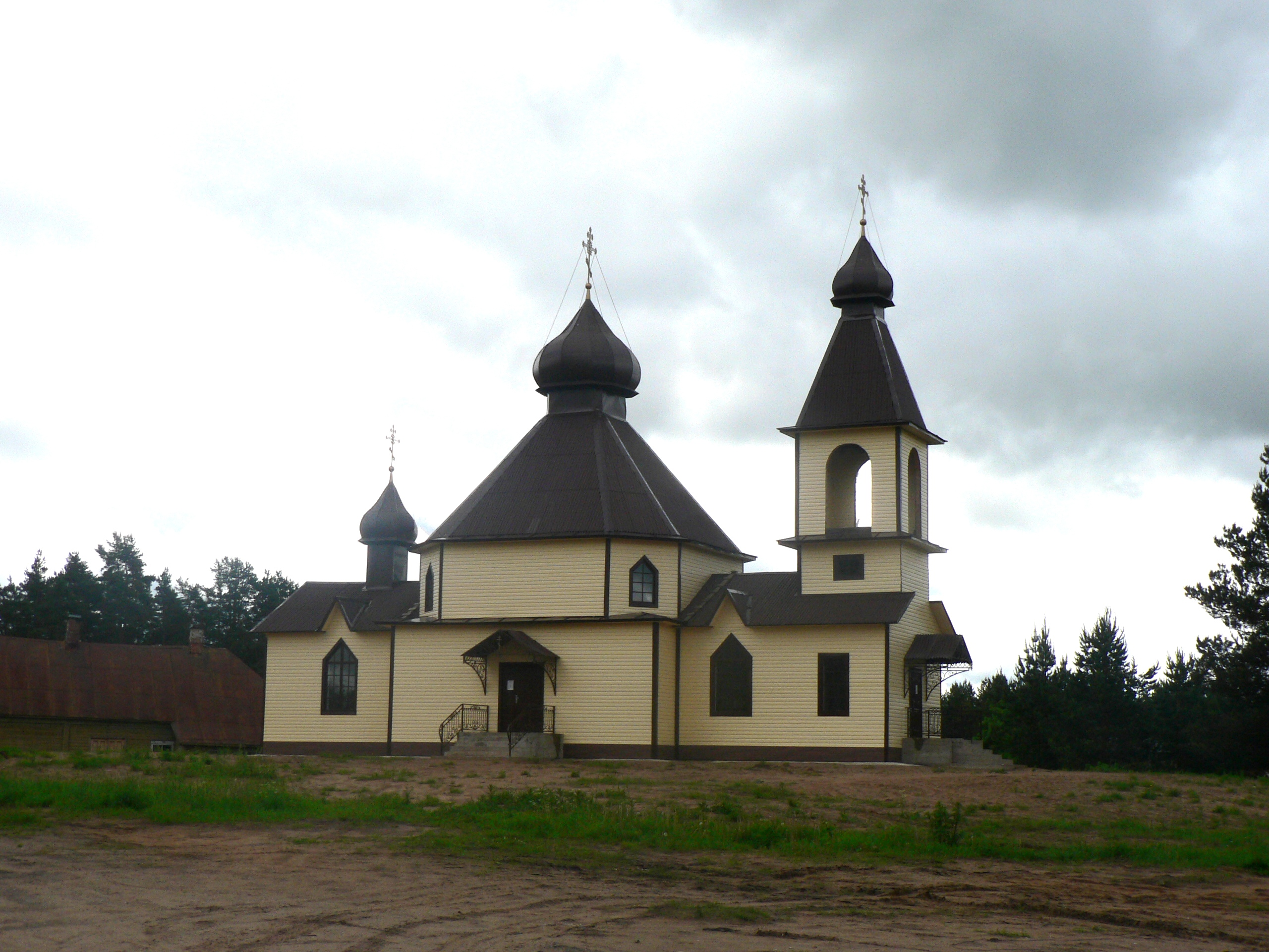 Church in Borovyonka (settlement in the Novgorod area). Russia.